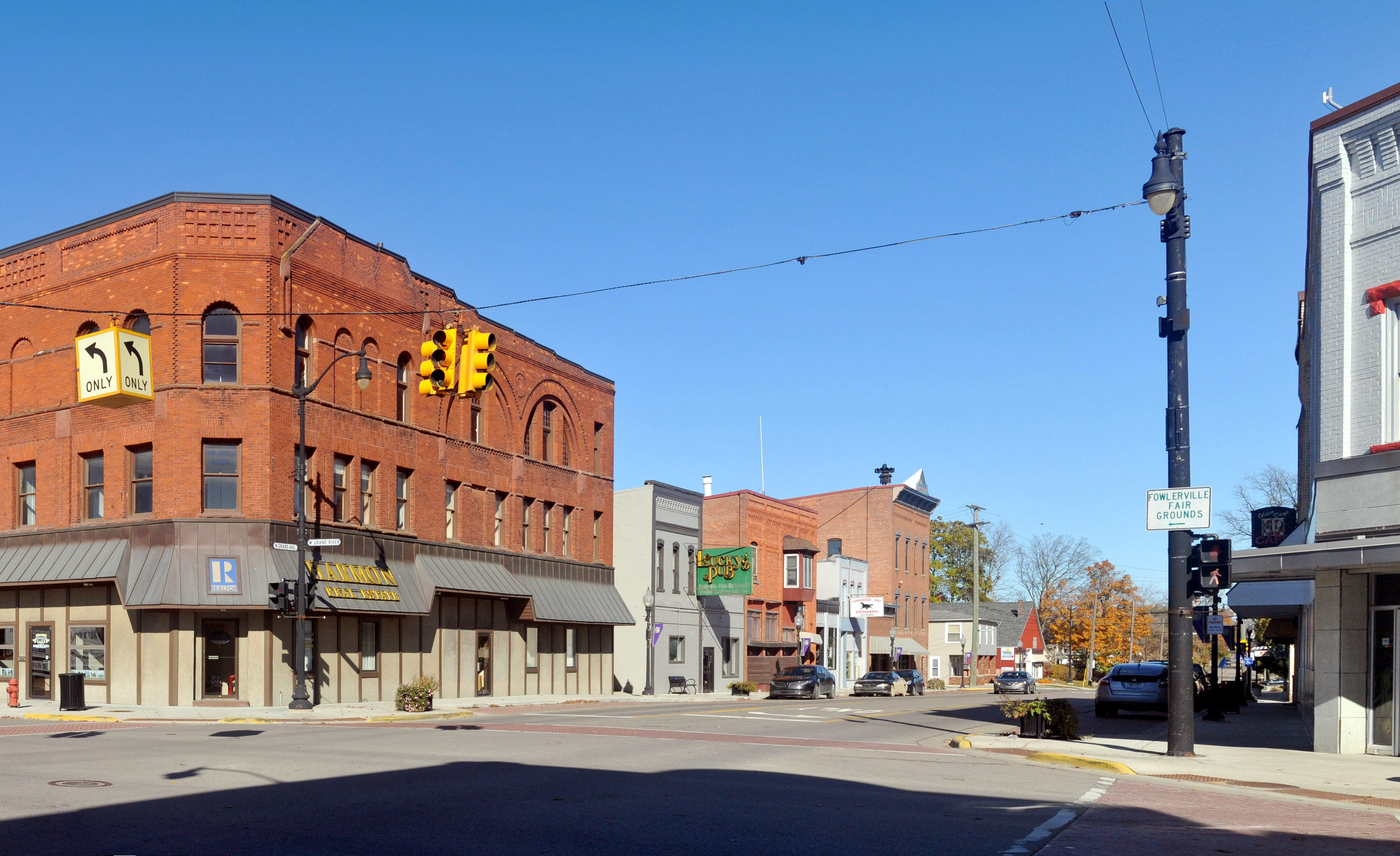 The northwest corner of the main two roads that cross in Fowlerville, MI.